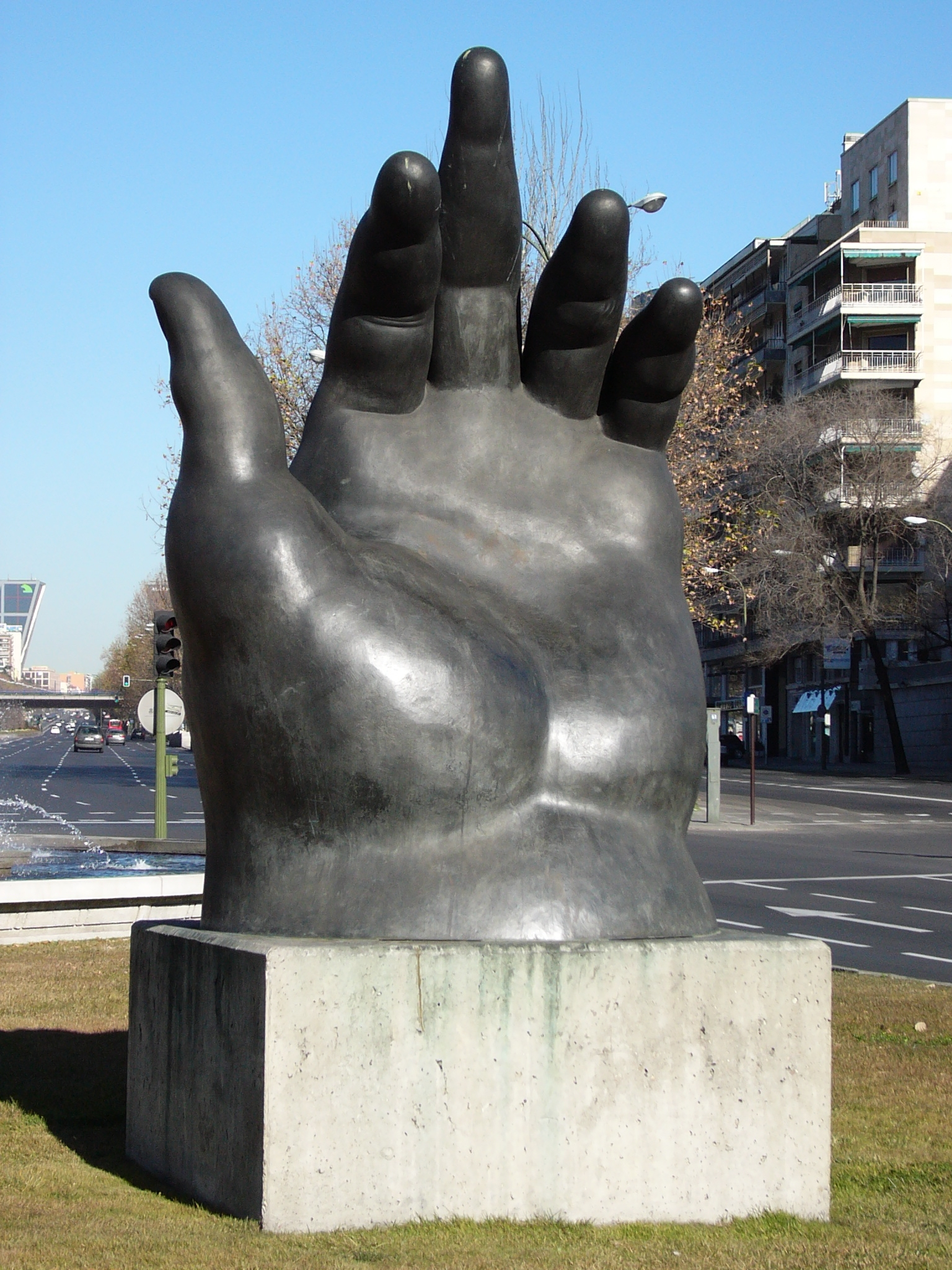 Title: The hand; Artist: Fernando Botero; Place: Paseo de la Castellana, Madrid; Country: Spain; Photographer: © Manuel González Olaechea y Franco.